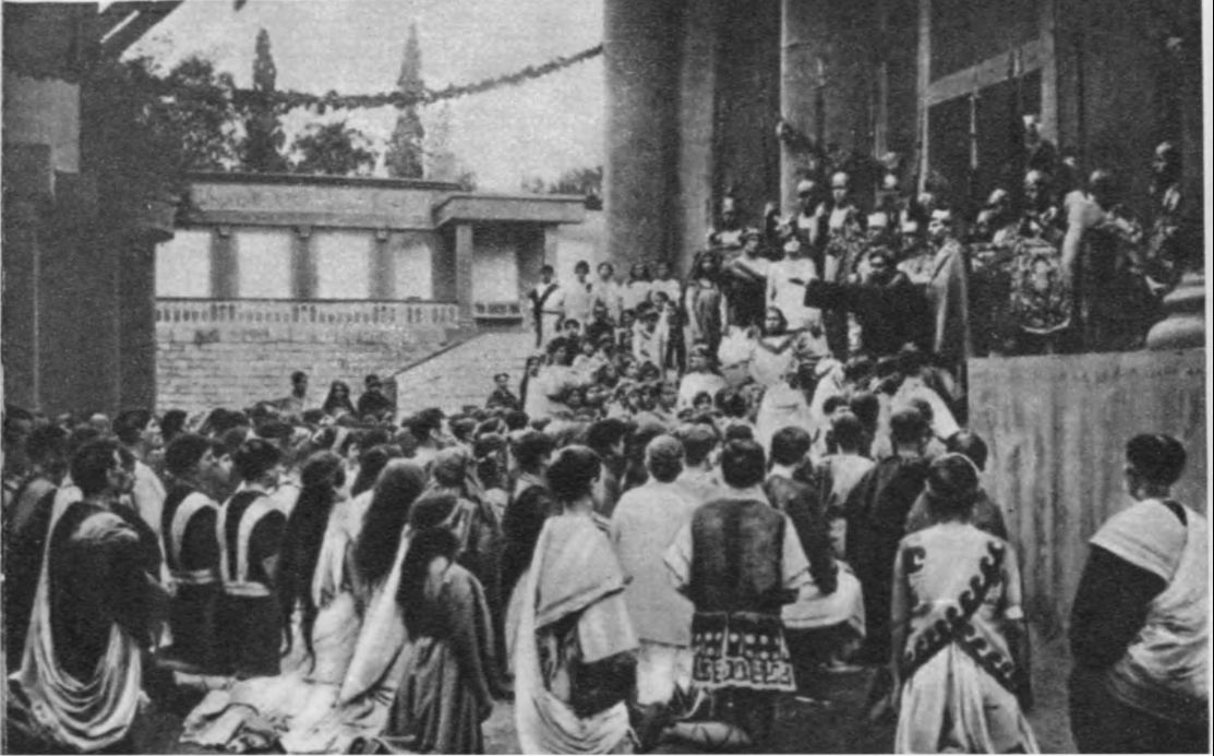 кадры